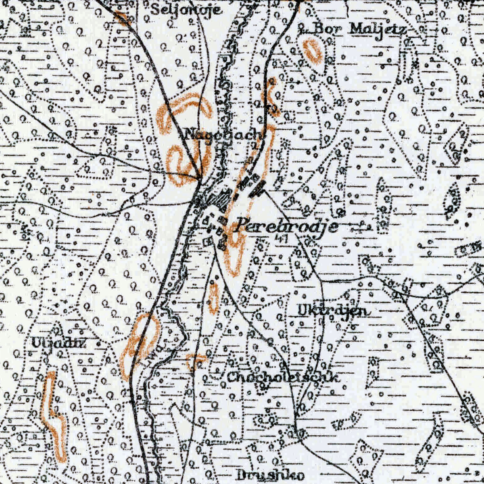 Perebrody on the map "Karte des Westlichen Russlands", U 35, 1917. According to Kujawsko-Pomorska Digital Library the map is in the public domain.